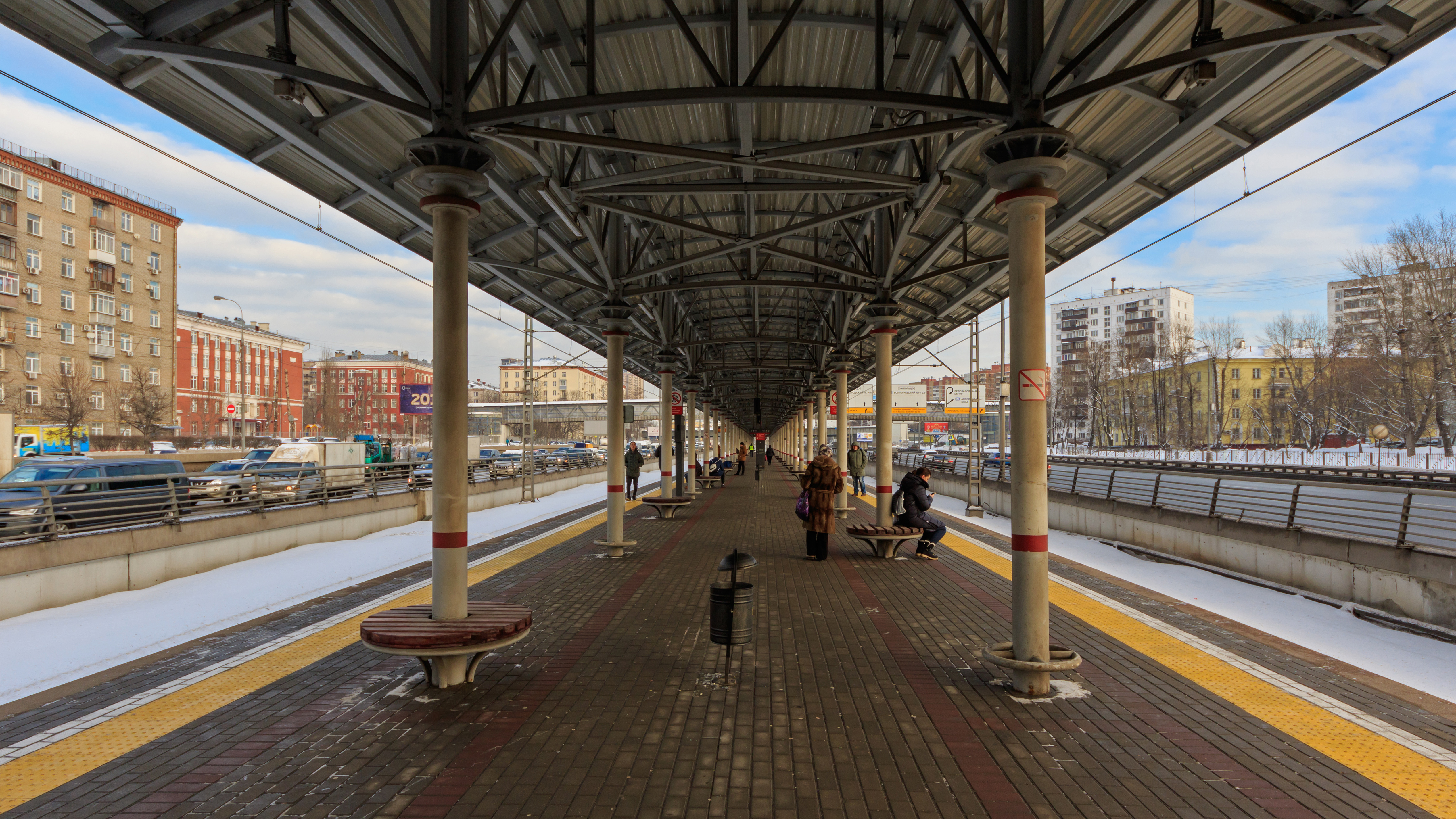 Avtozavodskaya MCC station in Moscow, Russia